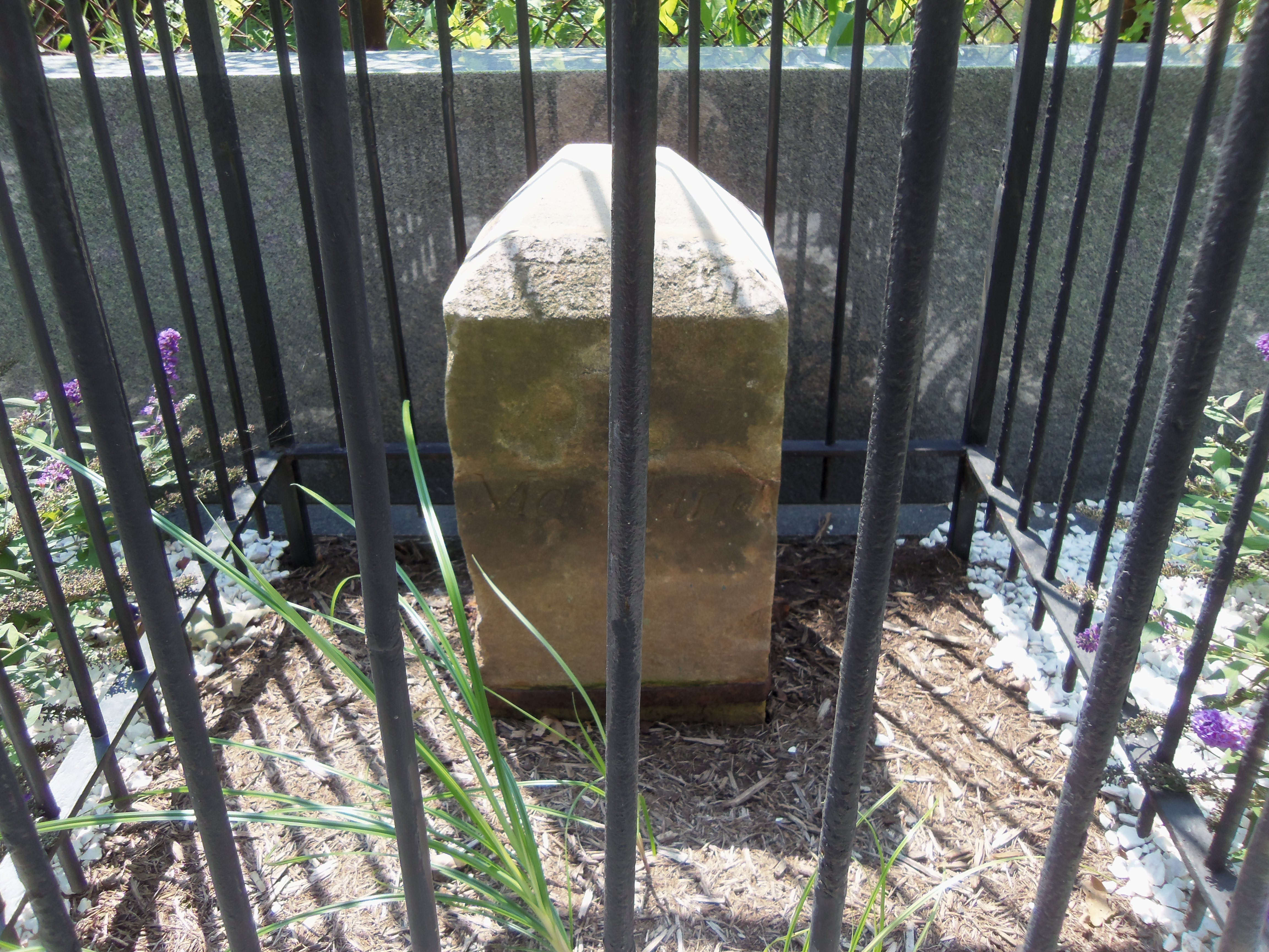 Northeast No. 7 Boundary Marker of the Original District of Columbia is located in Fort Lincoln Cemetery south of the mausoleums along the fence line. It is listed on the National Register of Historic Places. The stone was restored in 2012.